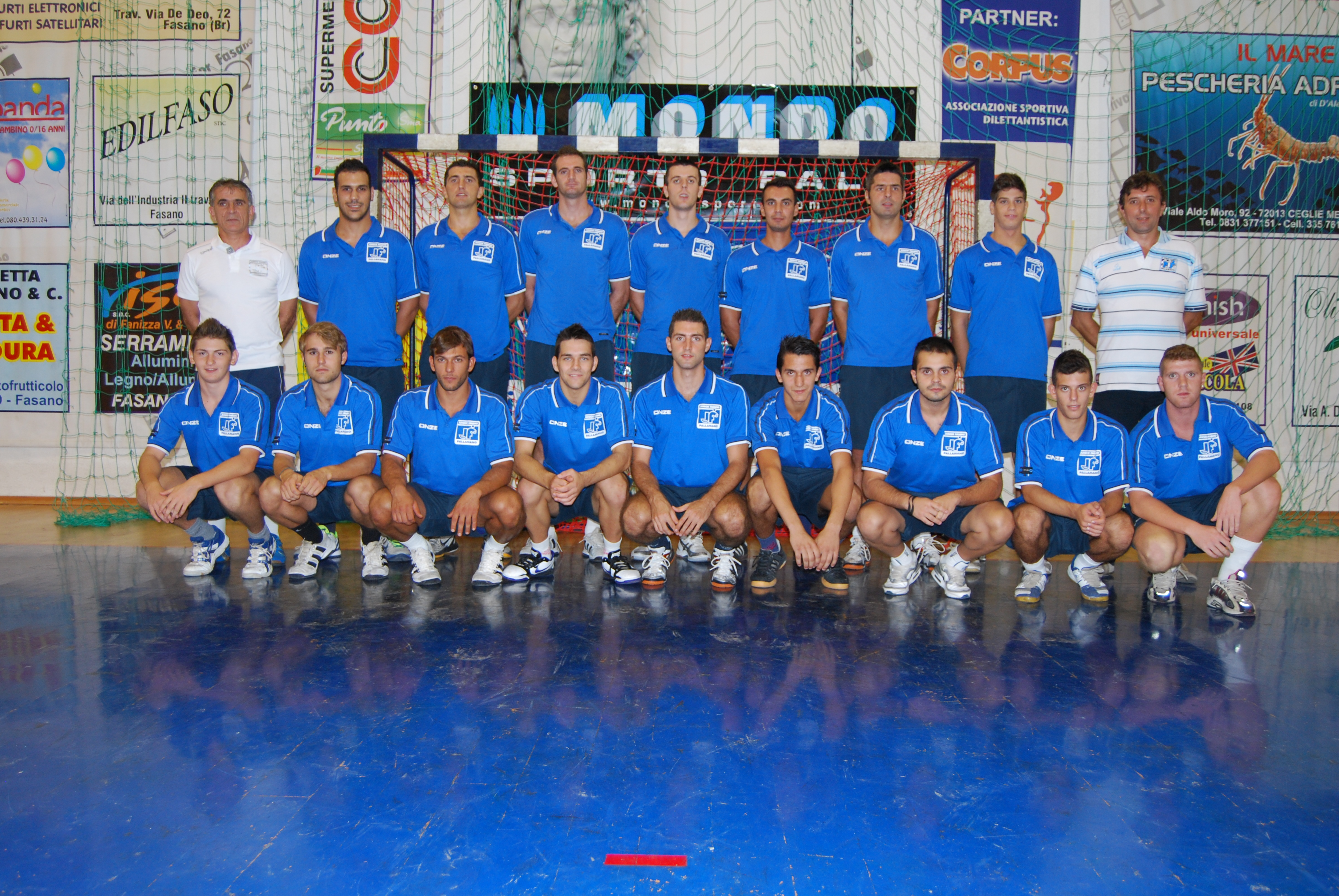 Junior Fasano 2011/2012